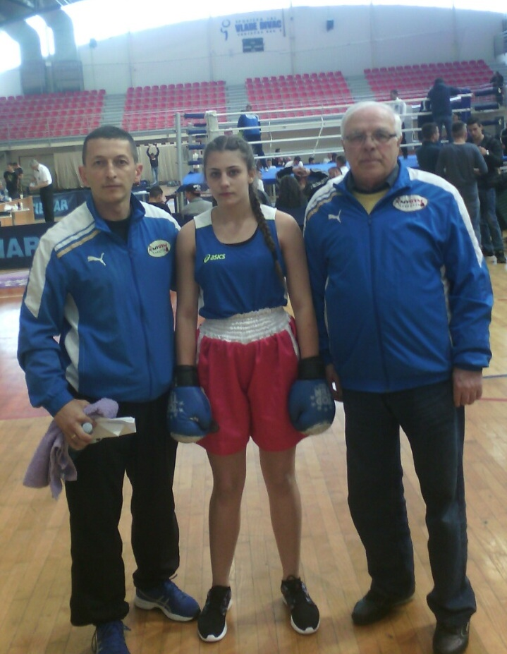 Serbian female boxer Angela Kostić with her coaches